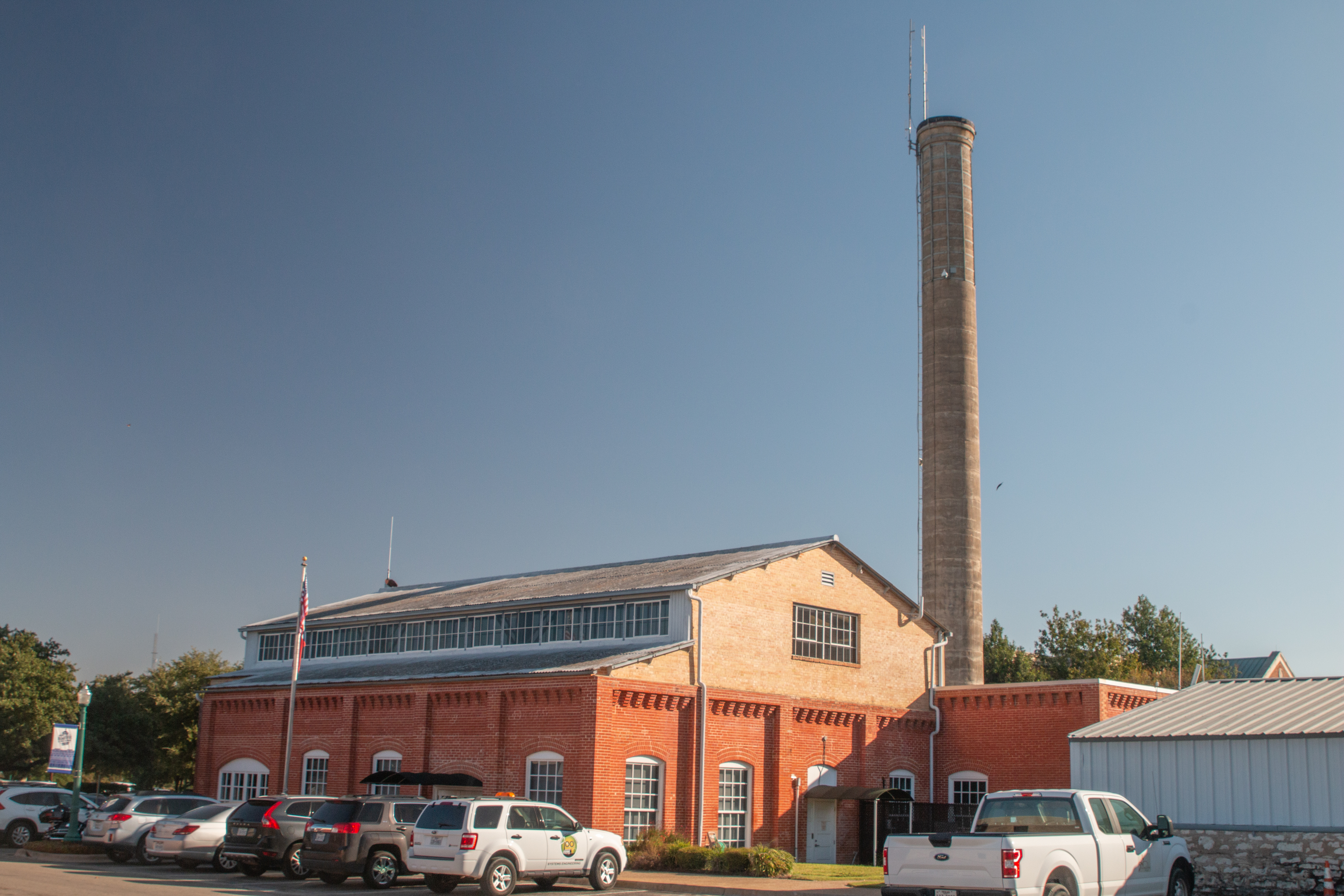 Georgetown Light and Power Works